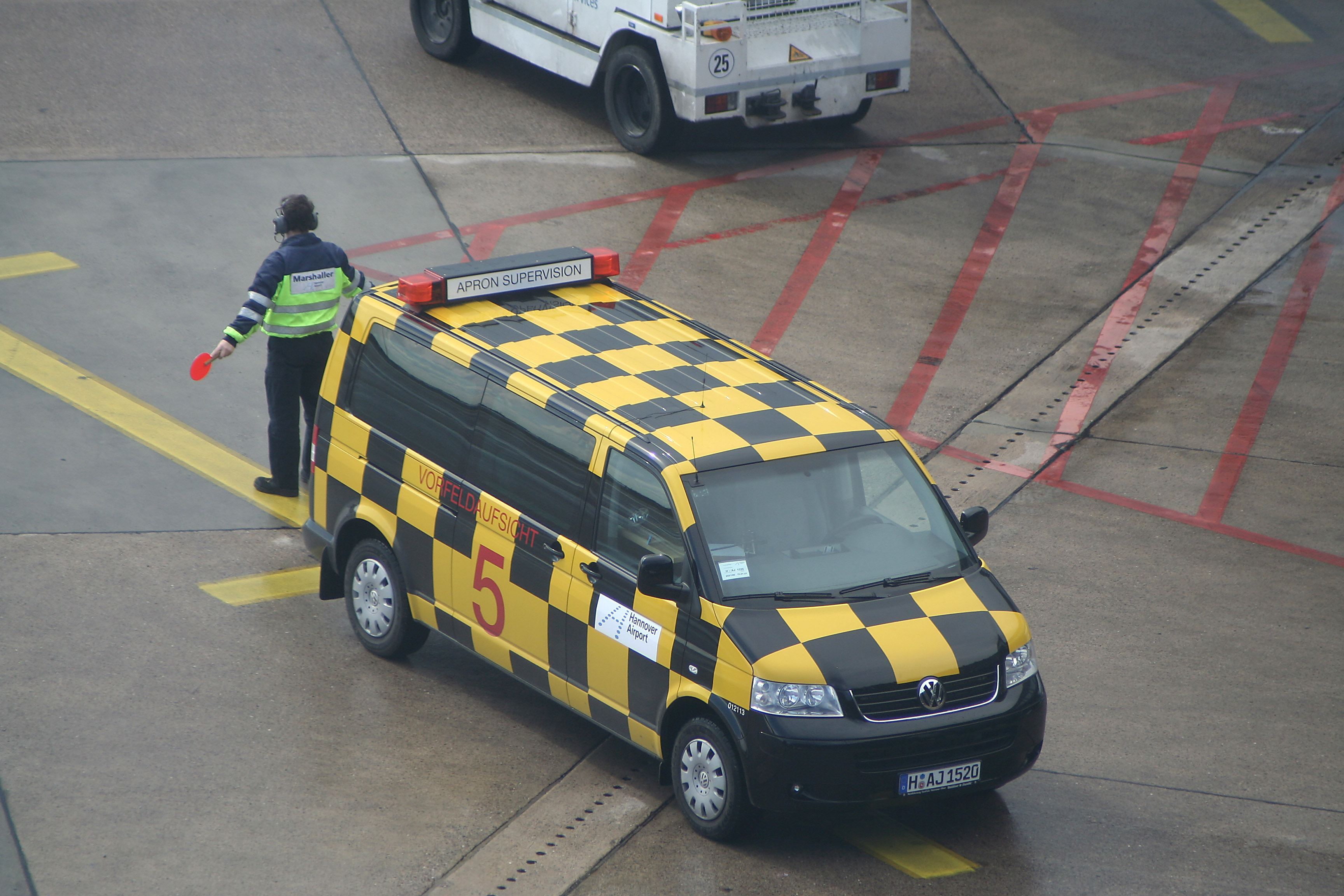 Flight Line Marshaller and follow me car at Hannover Airport